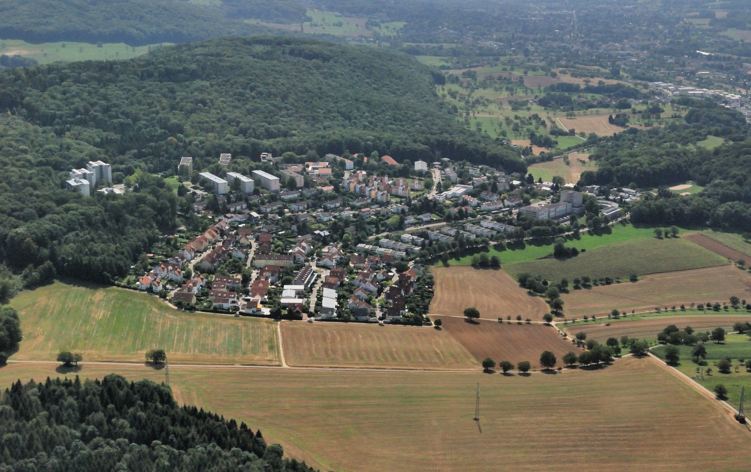 aerial view of Salzert (Lörrach)